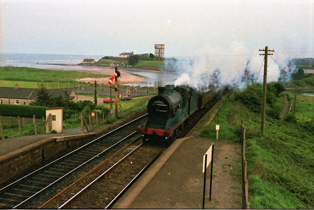 Laytown, Co. Meath: GNR Class S 4-4-0 steam locomotive 171 Slieve Gullion on an RPSI excursion train